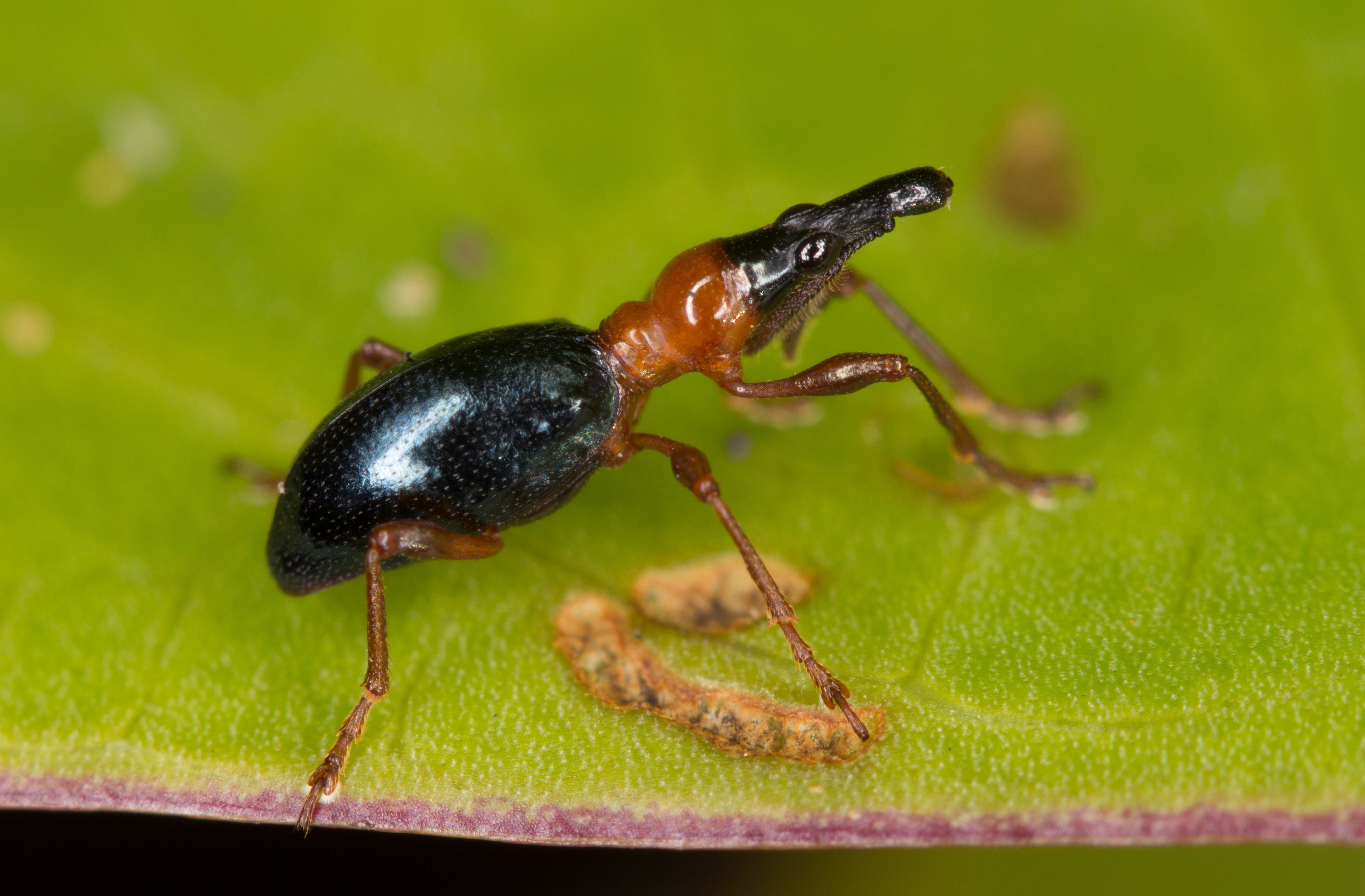 Sweetpotato Weevil